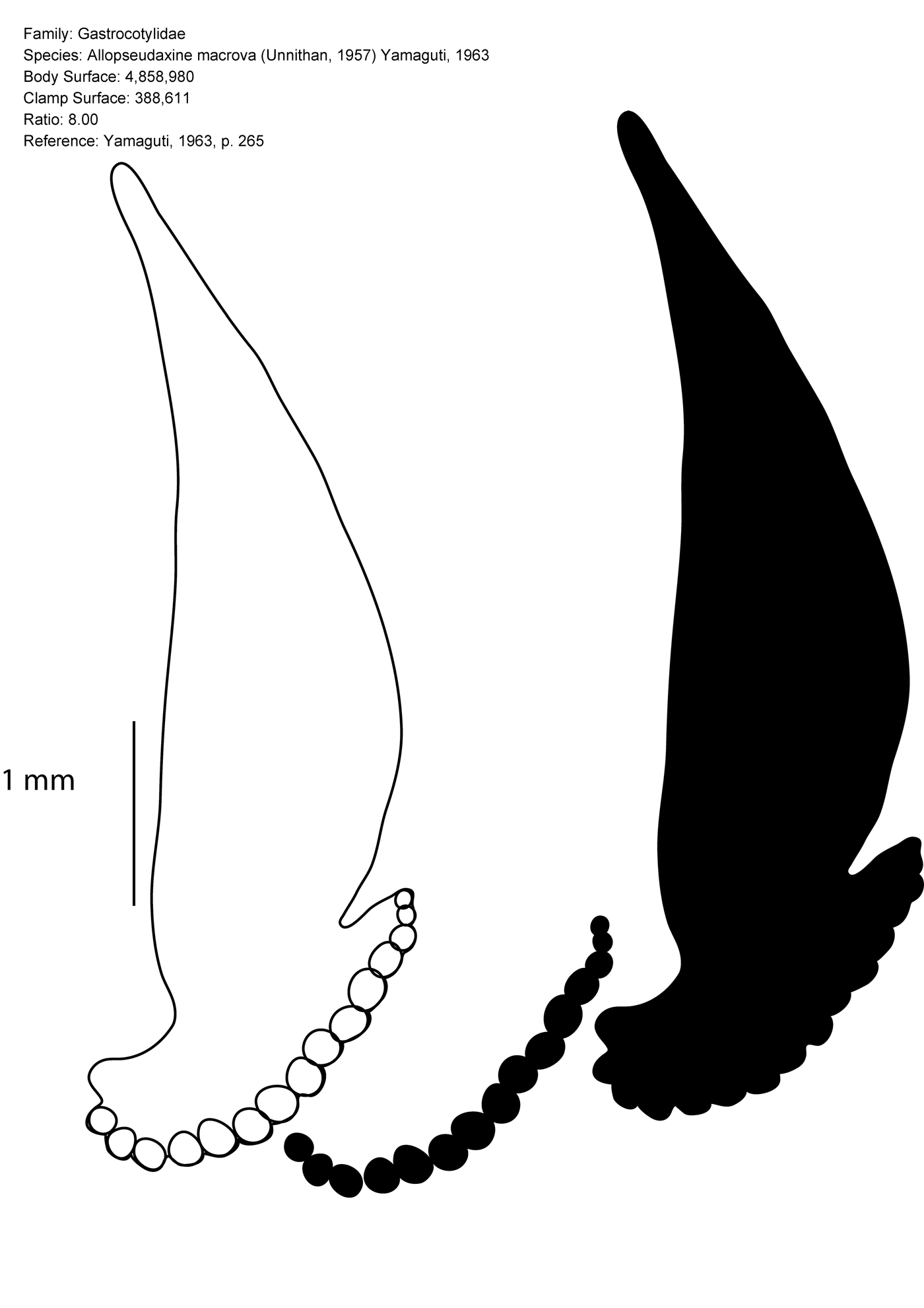 Allopseudaxine macrova (Unnithan, 1957) Yamaguti, 1963 (Gastrocotylidae) Cropped from: Supporting Information file S1 PDF of all figures and measurements of clamp and body surfaces. Total number of figures: 120.